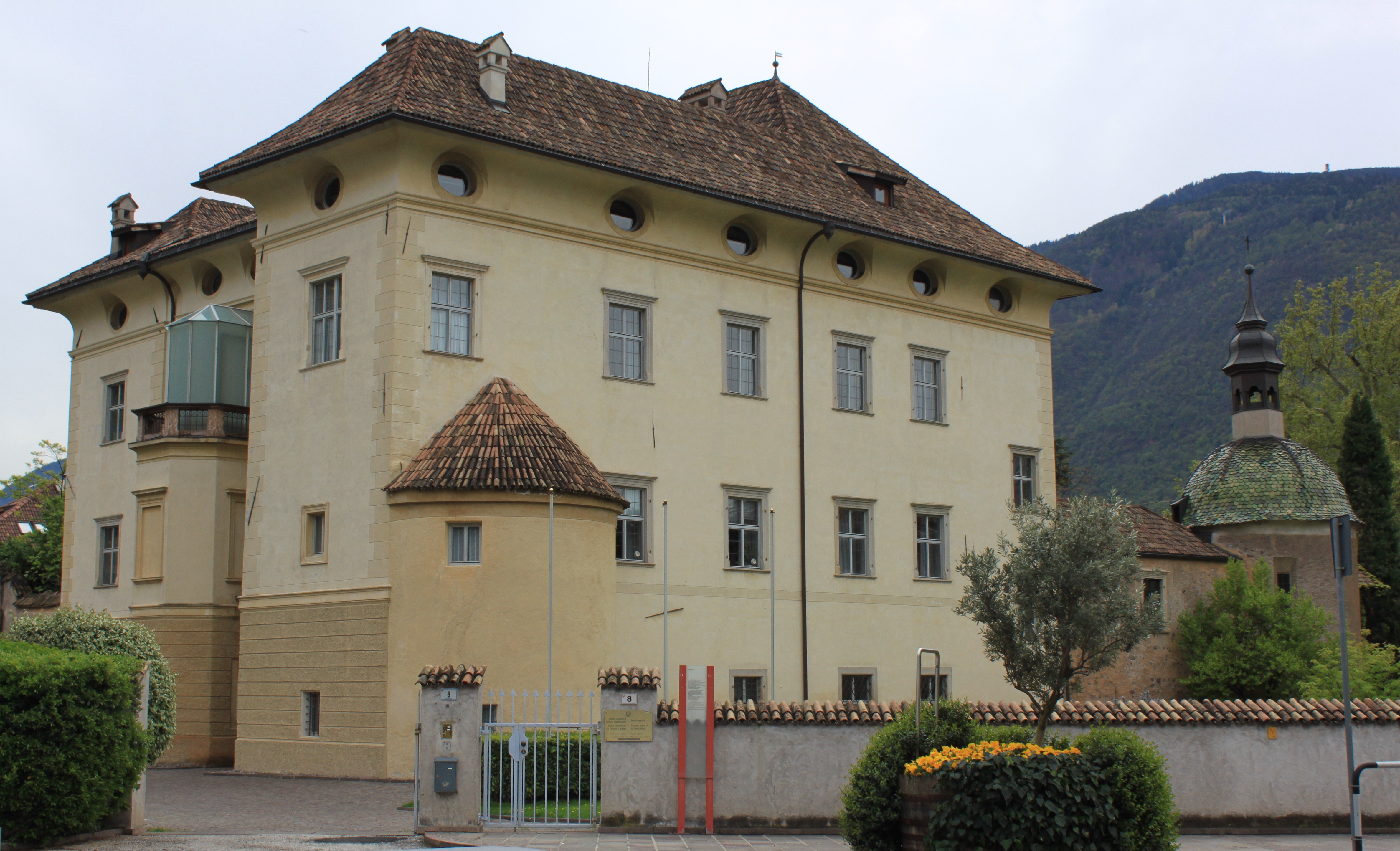 Bozen Bolzano - Gerstburg (north west view), seat of the regional administrative Court (Verwaltungsgericht Bozen, TAR Bolzano)